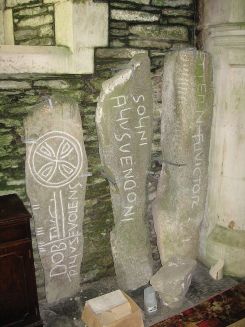 Inscribed Stones of St. Clydai's Church